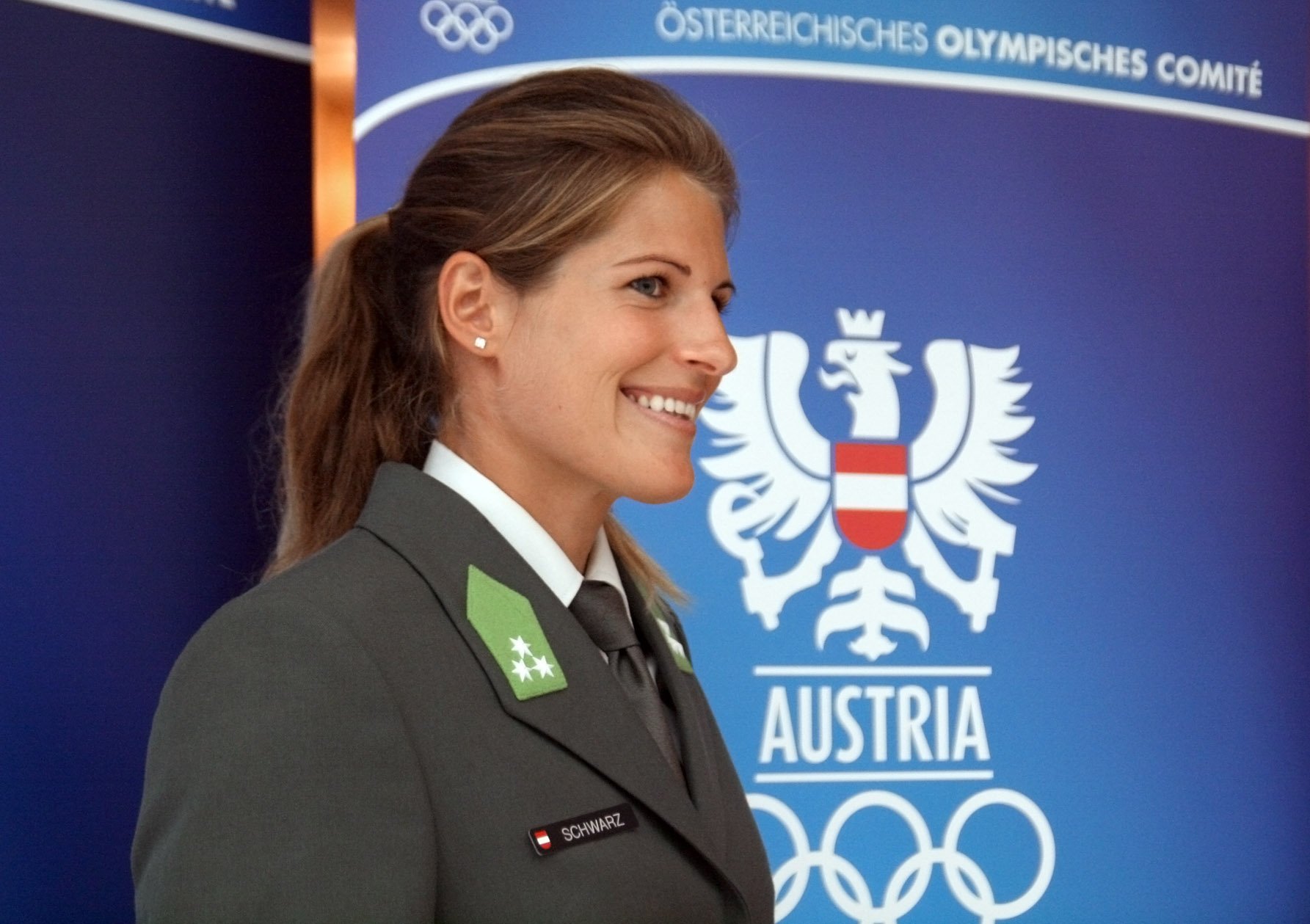 Canoer Viktoria Schwarz at the hand-out of the Austrian teams official attire for the 2012 Summer Olympics in London (Marriott, Vienna).